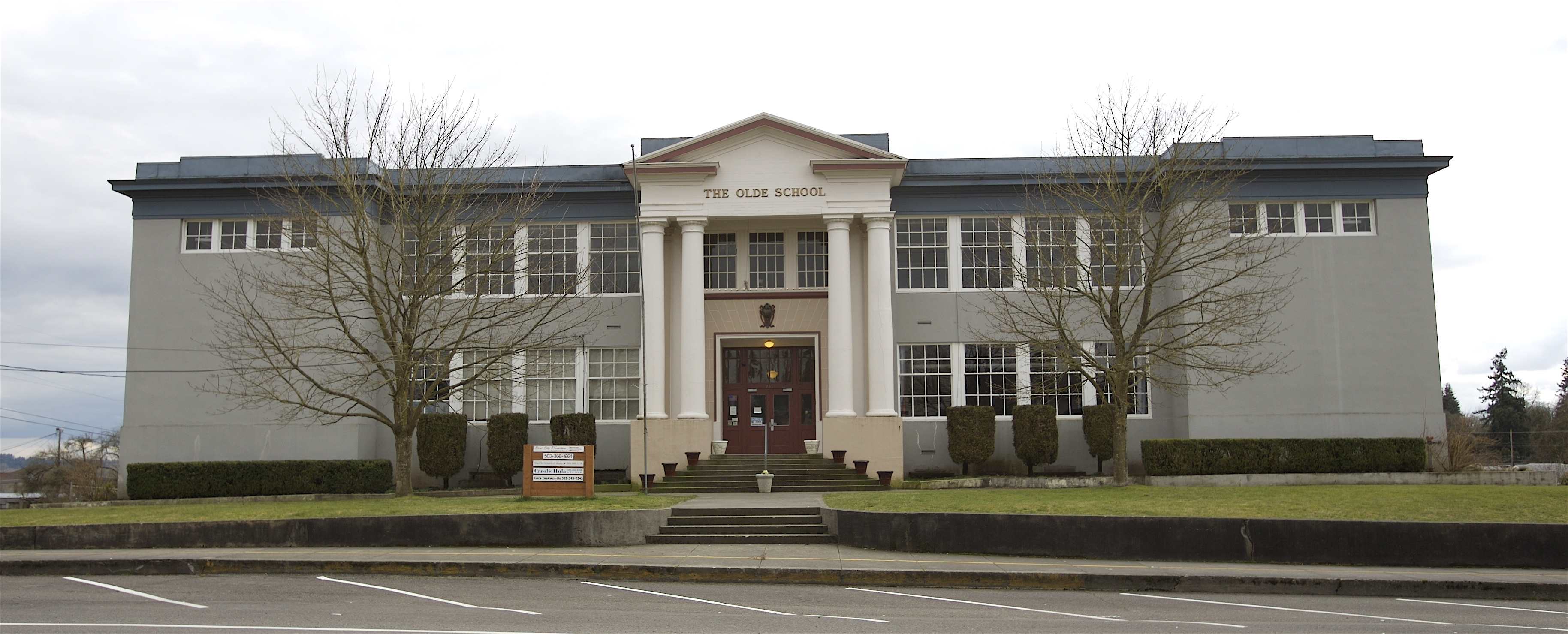 The Olde School Building in St. Helens, Oregon. Formerly John Gumm Elementary School.